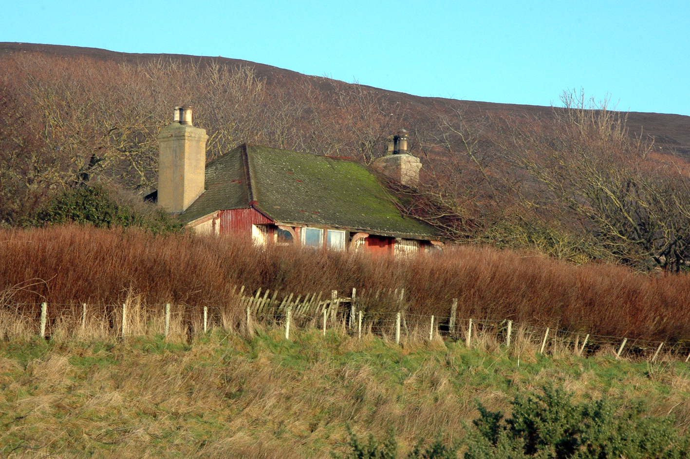 The former cottage of Megan Boyd (1915-2001), an award-winning Scottish fly tyer. The cottage is in Kintradwell, near Brora, Scotland.